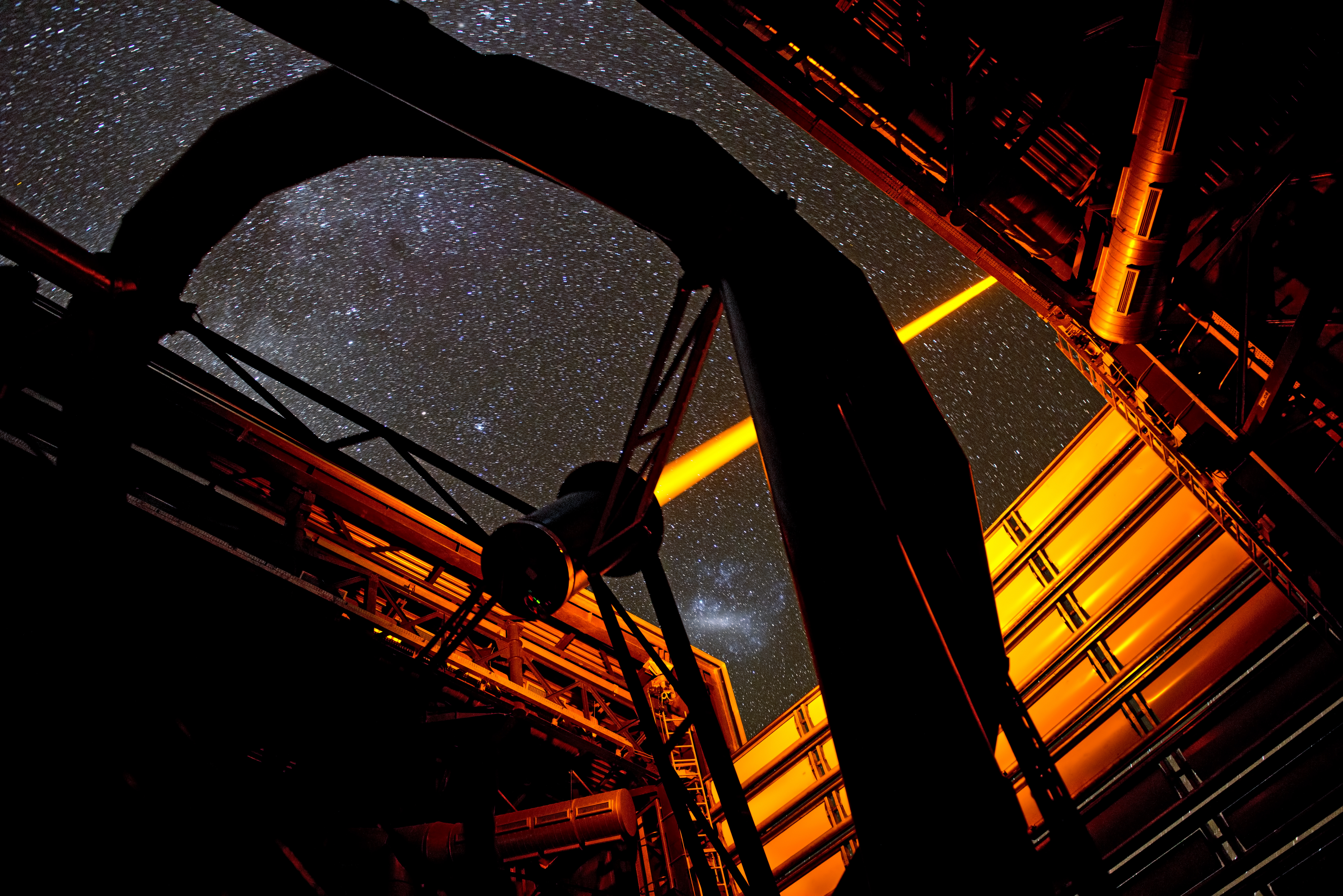 The new PARLA laser in operation at ESO’s Paranal Observatory. The yellow-orange beam of the brilliant seven watt laser is seen emerging from the dome of Unit Telescope 4 of the Very Large Telescope. In the background the Large Magellanic Cloud can also be seen. The laser creates an artificial star high in the atmosphere that can be used to correct images for the turbulence of the air and form much sharper pictures.